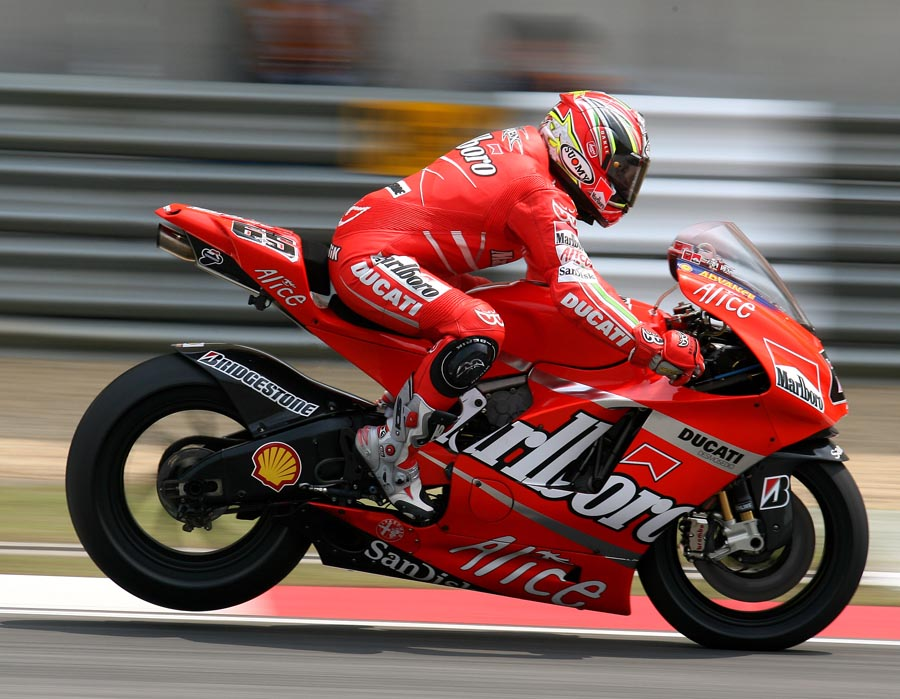 Loris Capirossi (ITA), Ducati Marlboro Team, Ducati, 65, 2007 MotoGP World Championship, Round 4, Shanghai, China, 6 May 2007